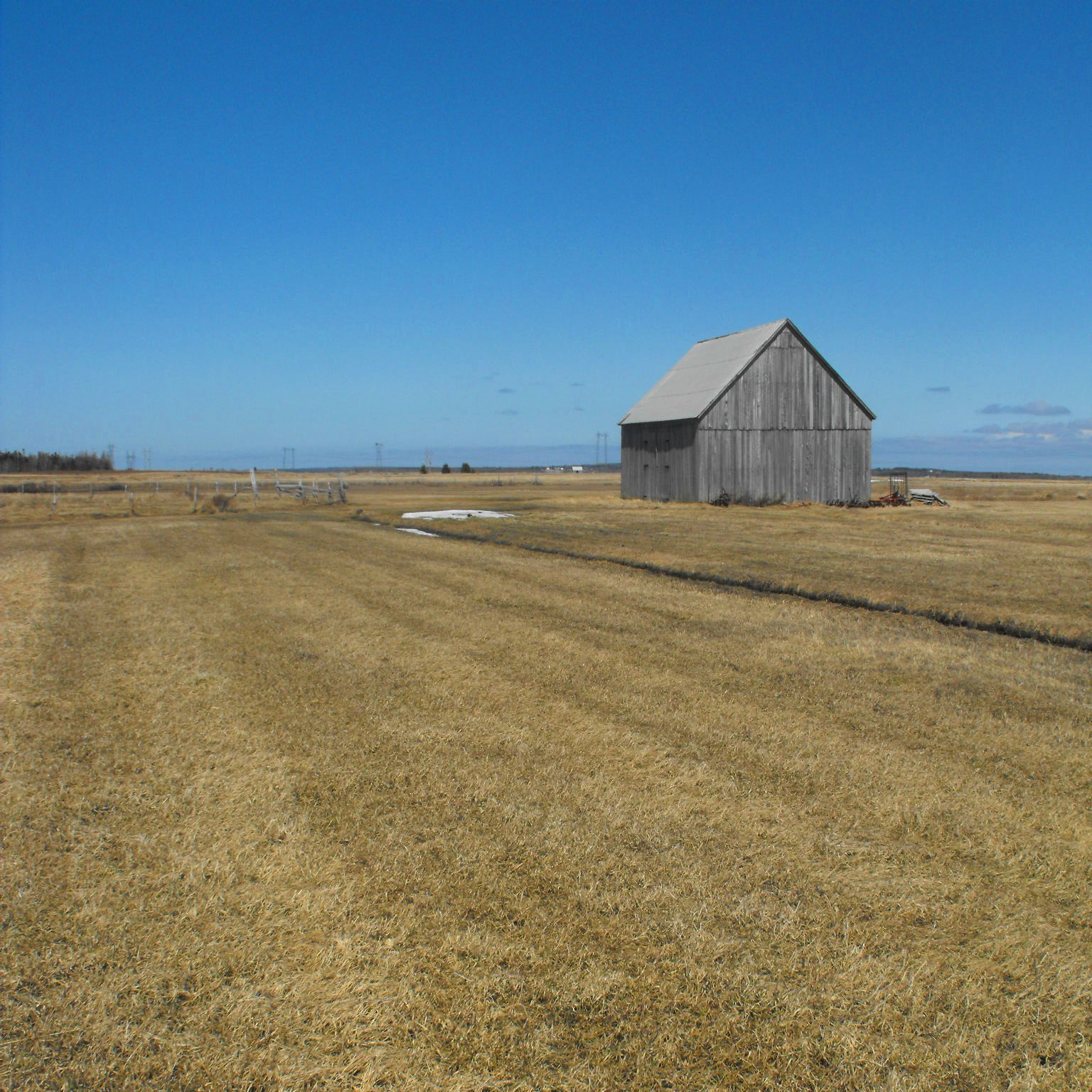 View of one of the last remaining barns on the Tantramar Marsh. Taken near the High Marsh Road in Upper Sackville, New Brunswick.